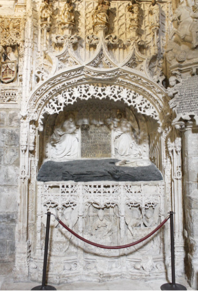 GonzalodePolancoLeonordeMirandaIglesiaSanNicolasdeBari